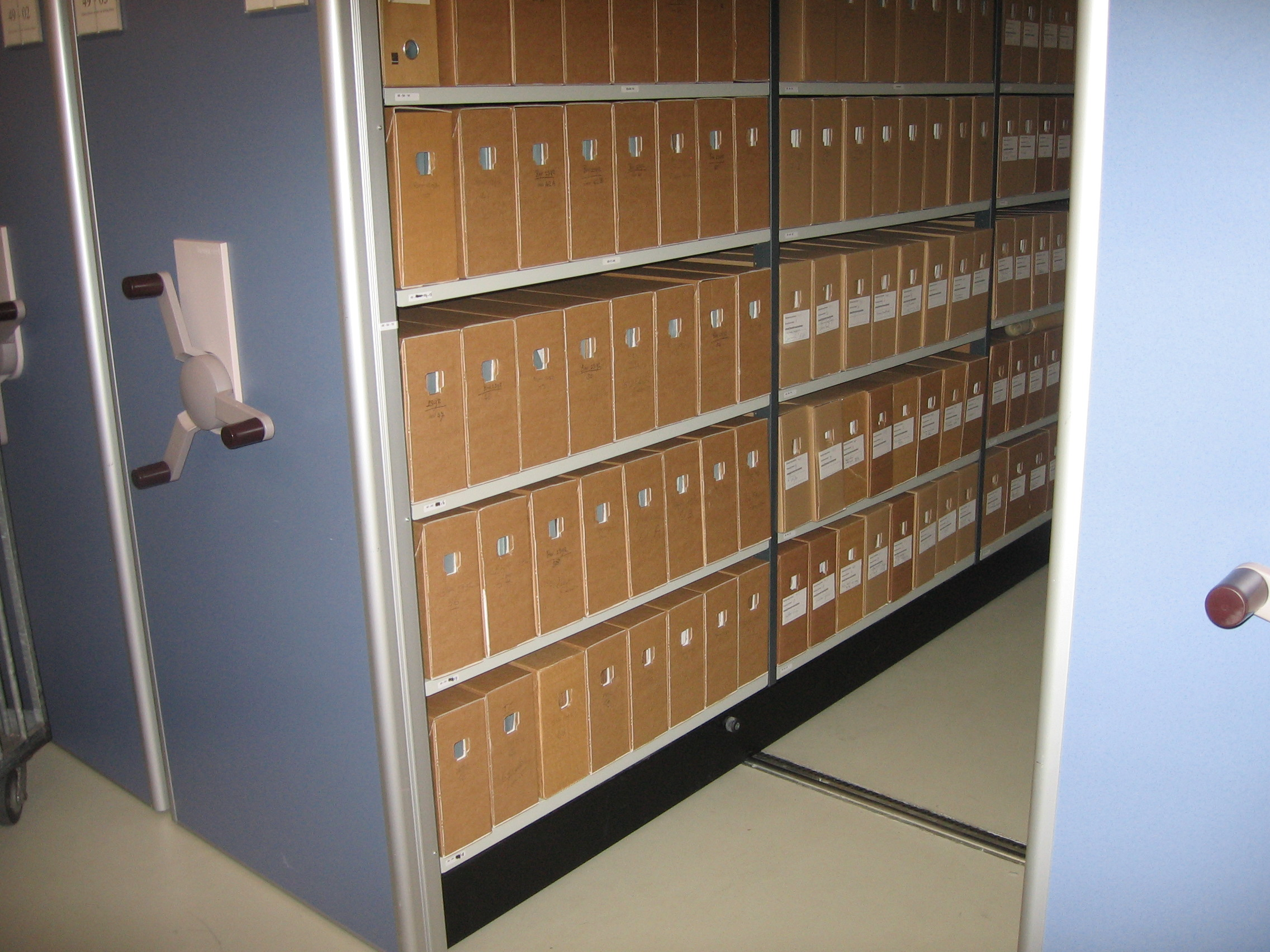 Municipal Archive of The Hague